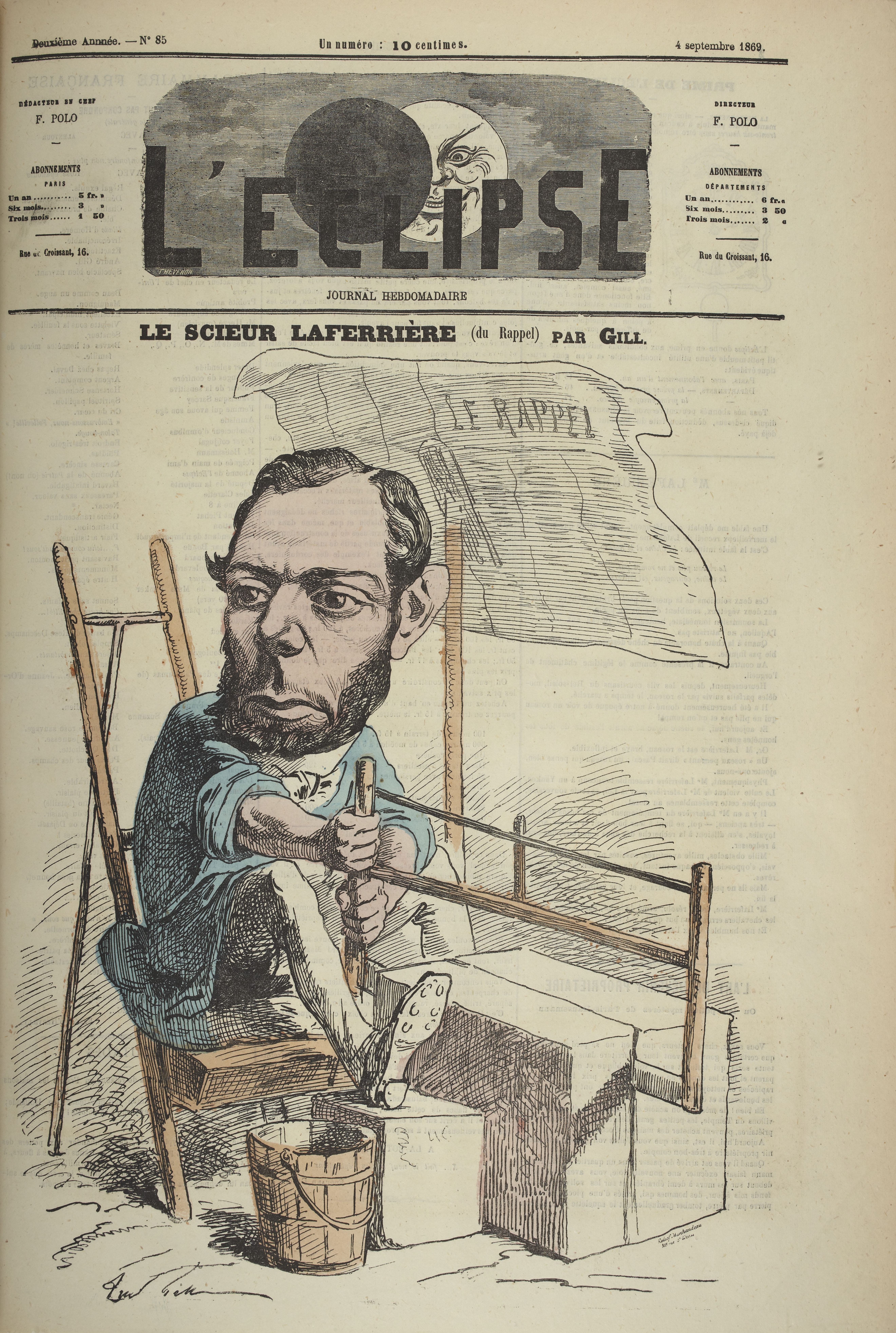 Caricature of Edouard Laferrière "Le scieur Laferrière" by André Gill. Published in L'Eclipse on 4 September 1869